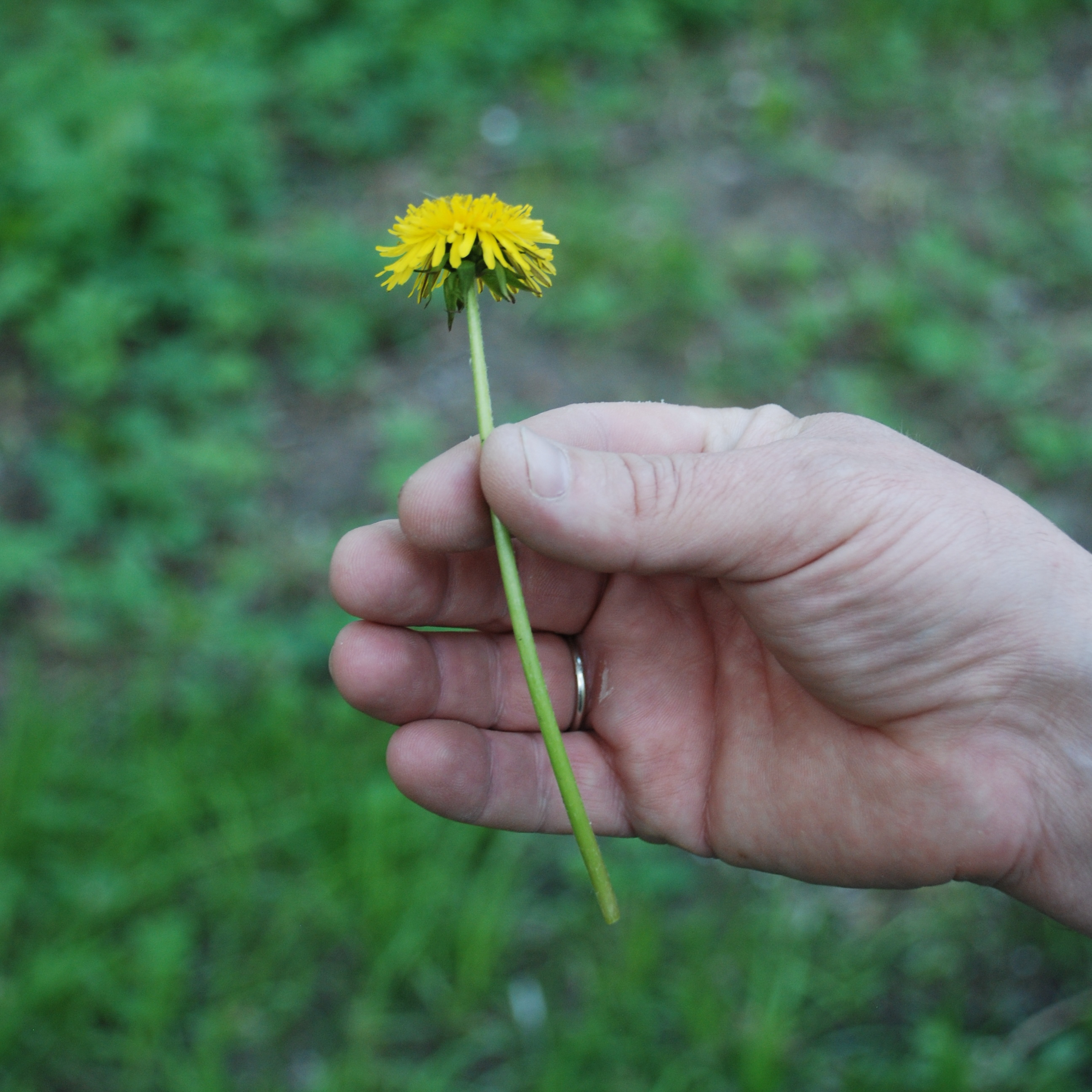 Человек удерживает цветочек, зажатый двумя пальцами